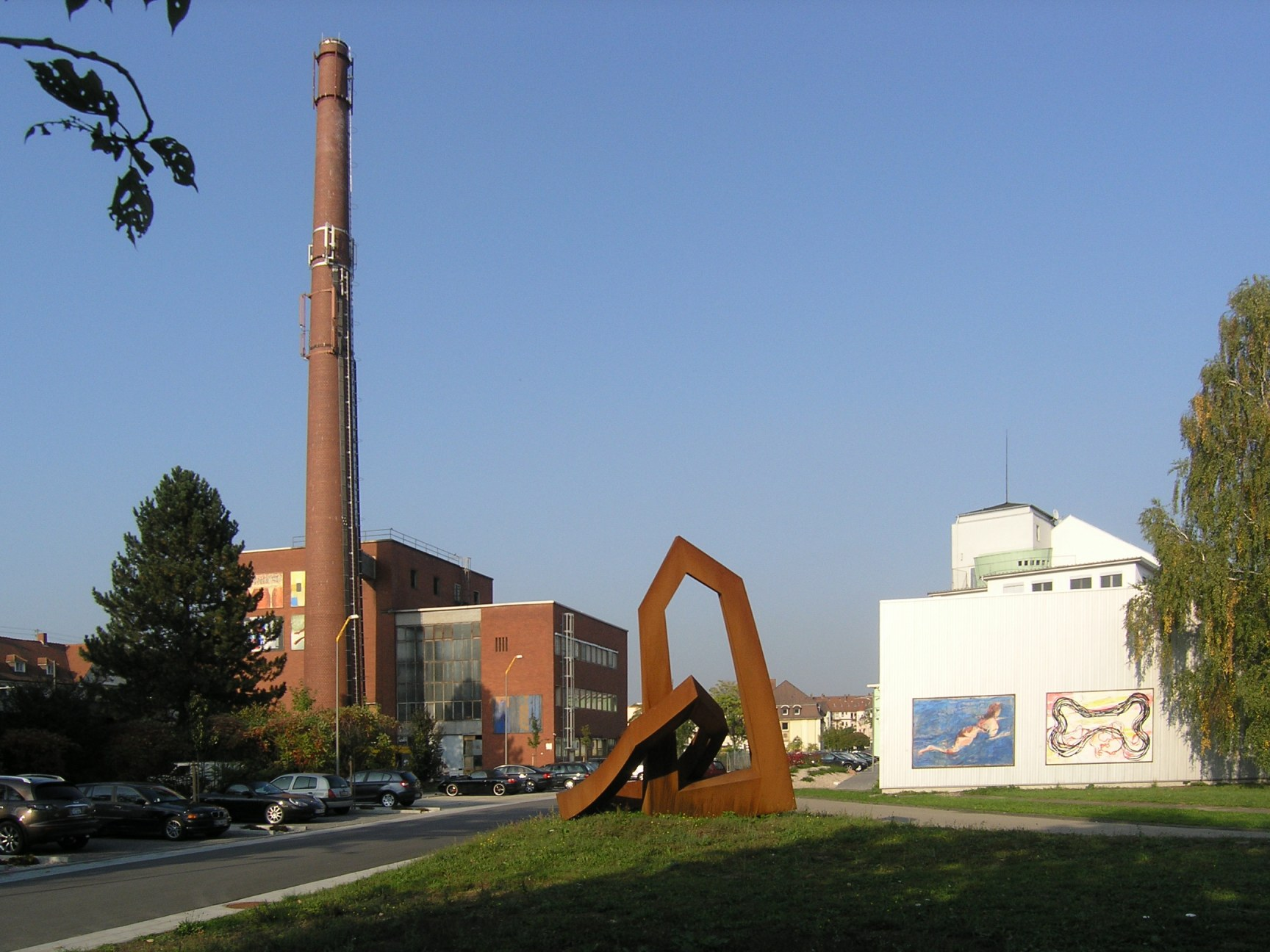 So-called RaumFabrik area in the city district of Durlach, city of Karlsruhe, Germany. This is a former industrial area which nowadays serves as home to many companies of various sizes, that are mostly active in offering services rather than production.